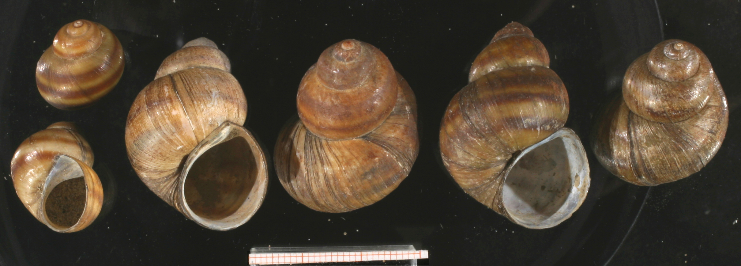 Photo of Viviparus viviparus. Scale in mm. Locality: Poland: Warszawa, near Wisla bridge. Date: 11-08-2003.